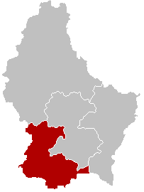 A map of the Chamber of Deputies circonscriptions (circonscriptions électorales) of Luxembourg, with Sud highlighted.